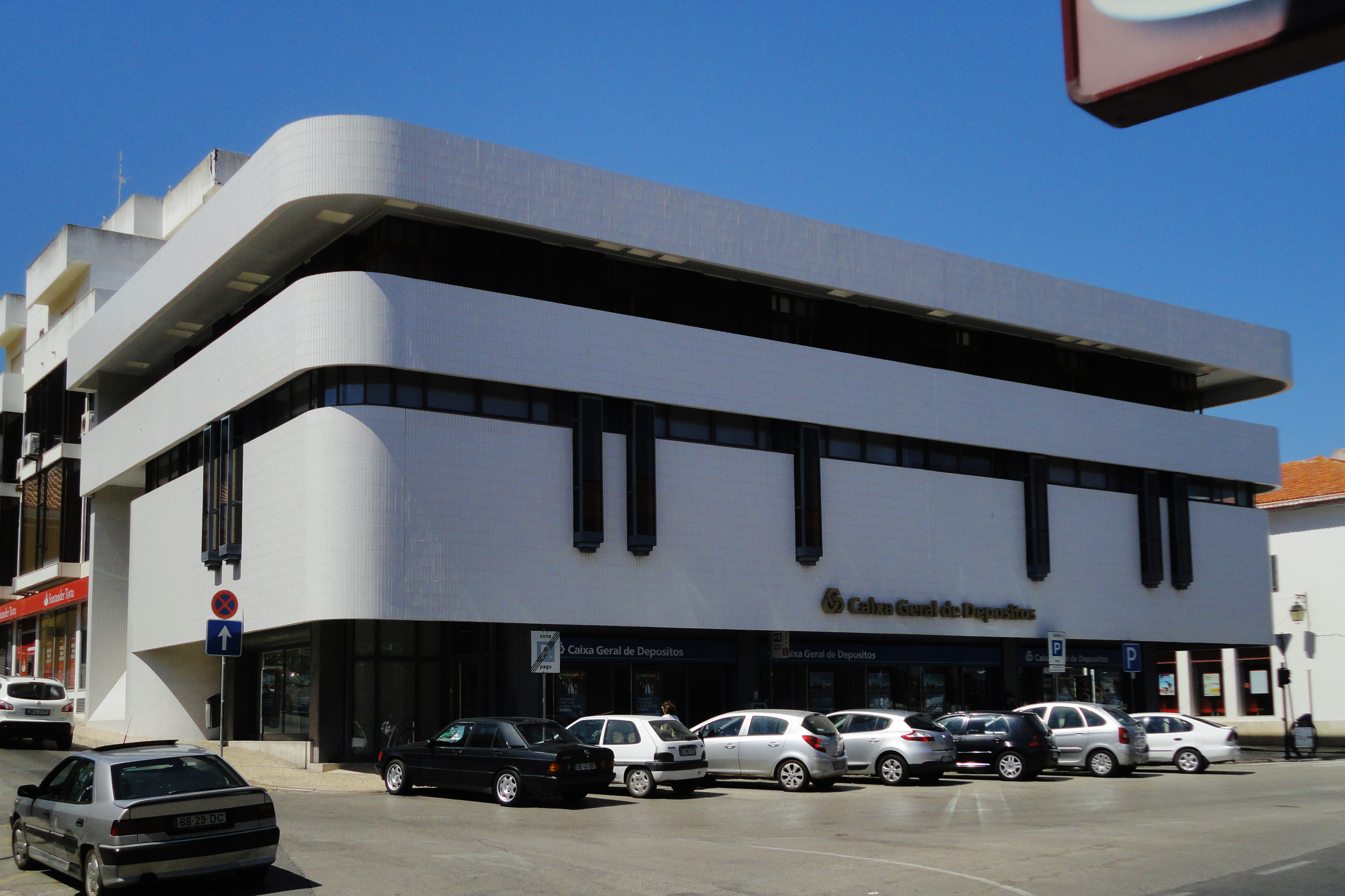 José Rafael Botelho (architect); Caixa Geral de Depósitos, Lagos, Portugal